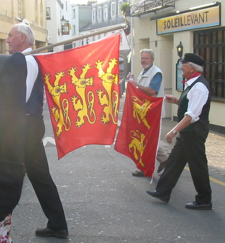 Flags of Normandy paraded in Saint Helier, Jersey, during La Fête Nouormande 2005